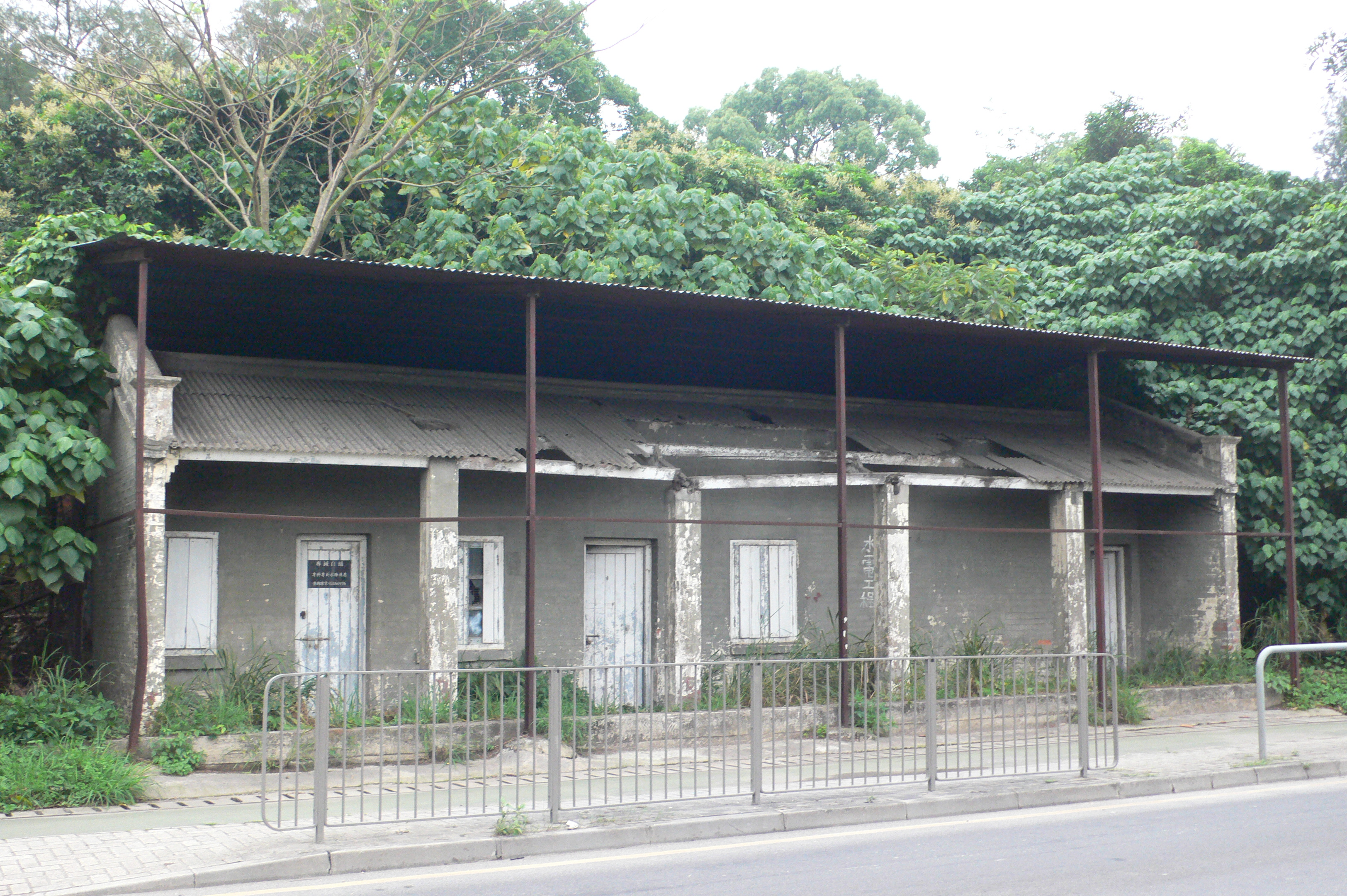 This is the ruin of Hung Ling Station, one of the stations of Sha Tau Kok Railway, a branch line of Kowloon Canton Railway of Hong Kong. This branch was built in 1912, and was closed in 1928. Most of the stations of this branch are demolished except this one.